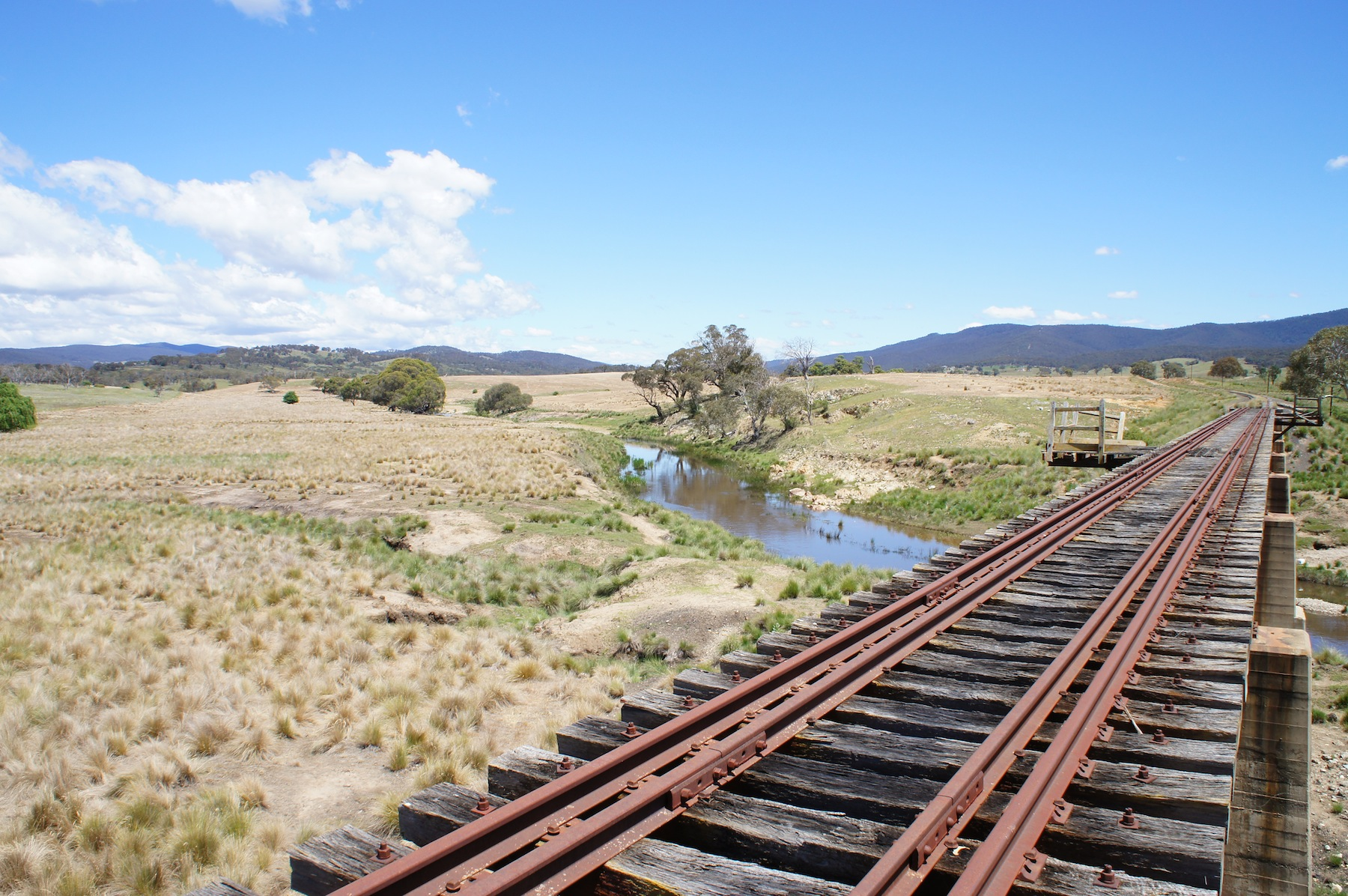 The disused Captains Flat branch line crosses the Molonglo River in the picturesque Upper Molonglo Plain.